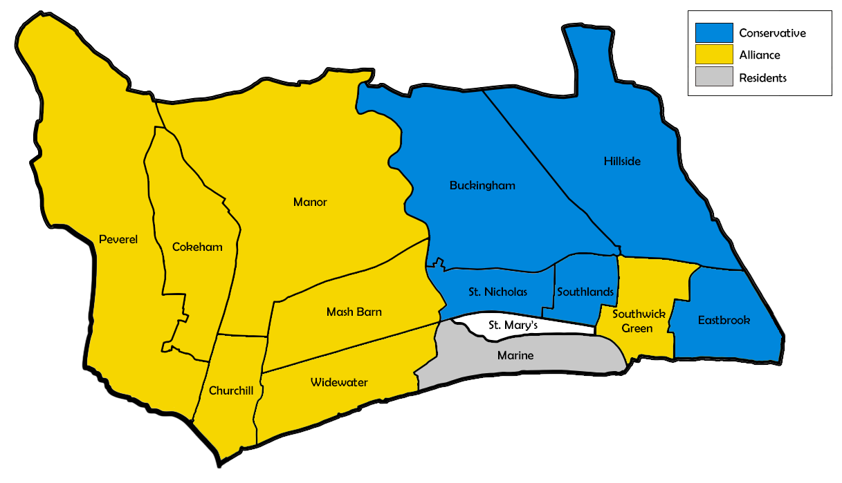 Ward map of Adur council with political colouring for the 1984 election.